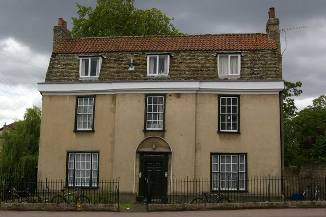 Wentworth House, Chesterton Road This house was formerly the residence of the Chaplain of Magdalene